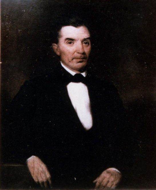 American plantation owner Isaac Franklin (1789–1846)